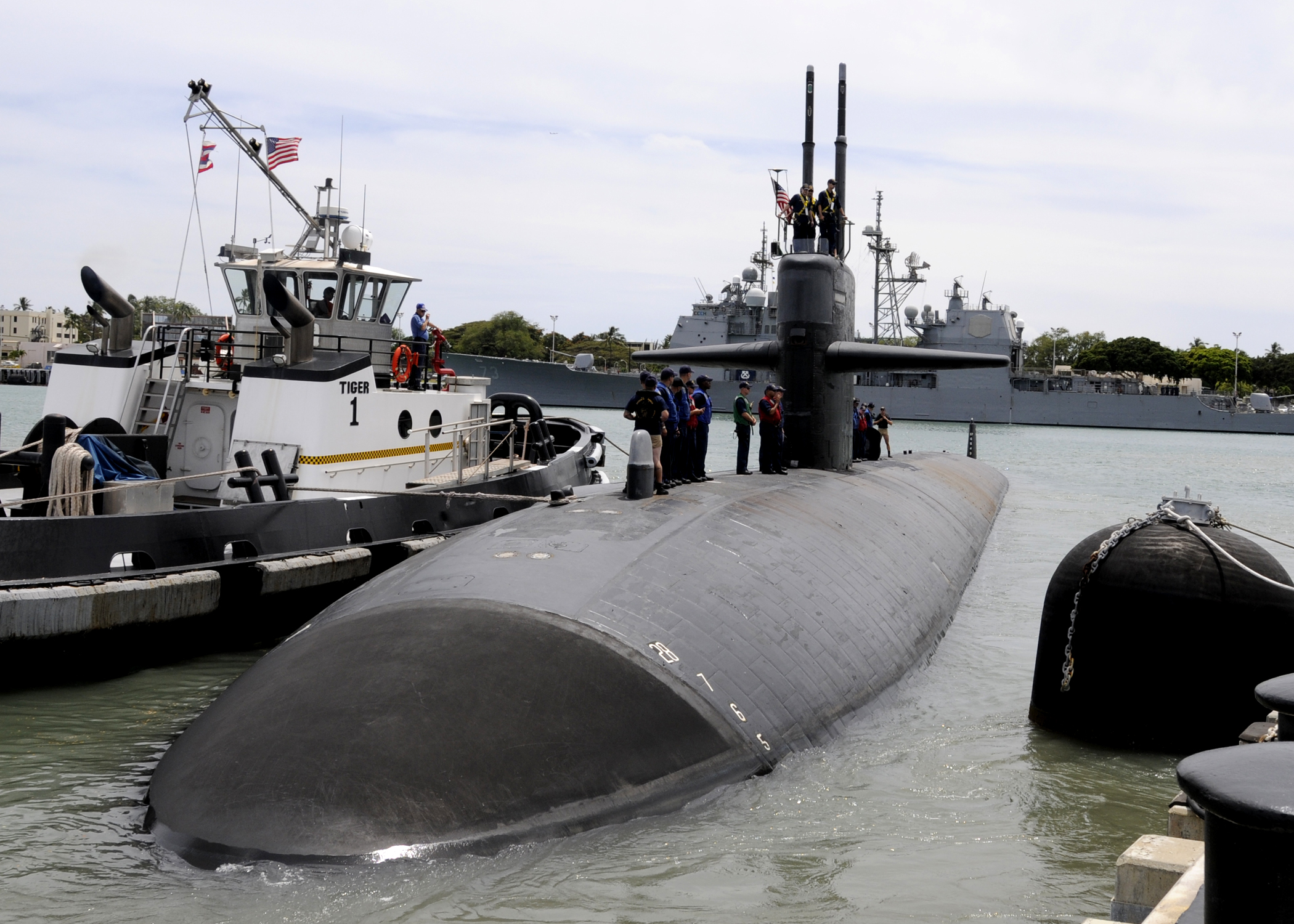 PEARL HARBOR (April 5, 2011) The Los Angeles-class submarine USS Bremerton (SSN 698) departs Joint Base Pearl Harbor-Hickam for a six-month deployment to the western Pacific region. (U.S. Navy photo by Mass Communication Specialist 2nd Class Ronald Gutridge/Released)